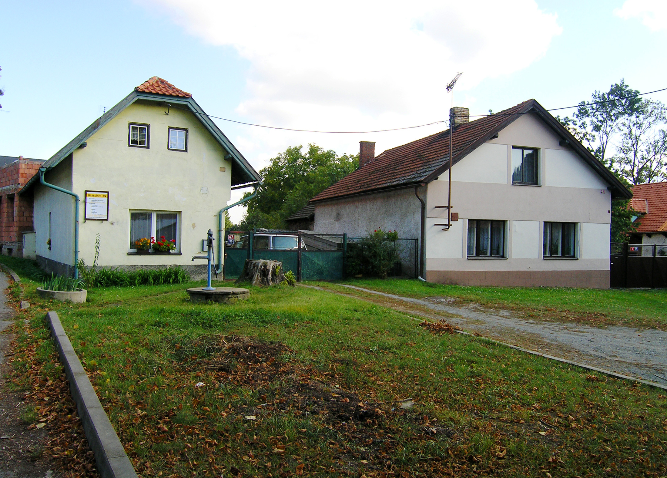 Houses in Pacov, part of Říčany, Czech Republic